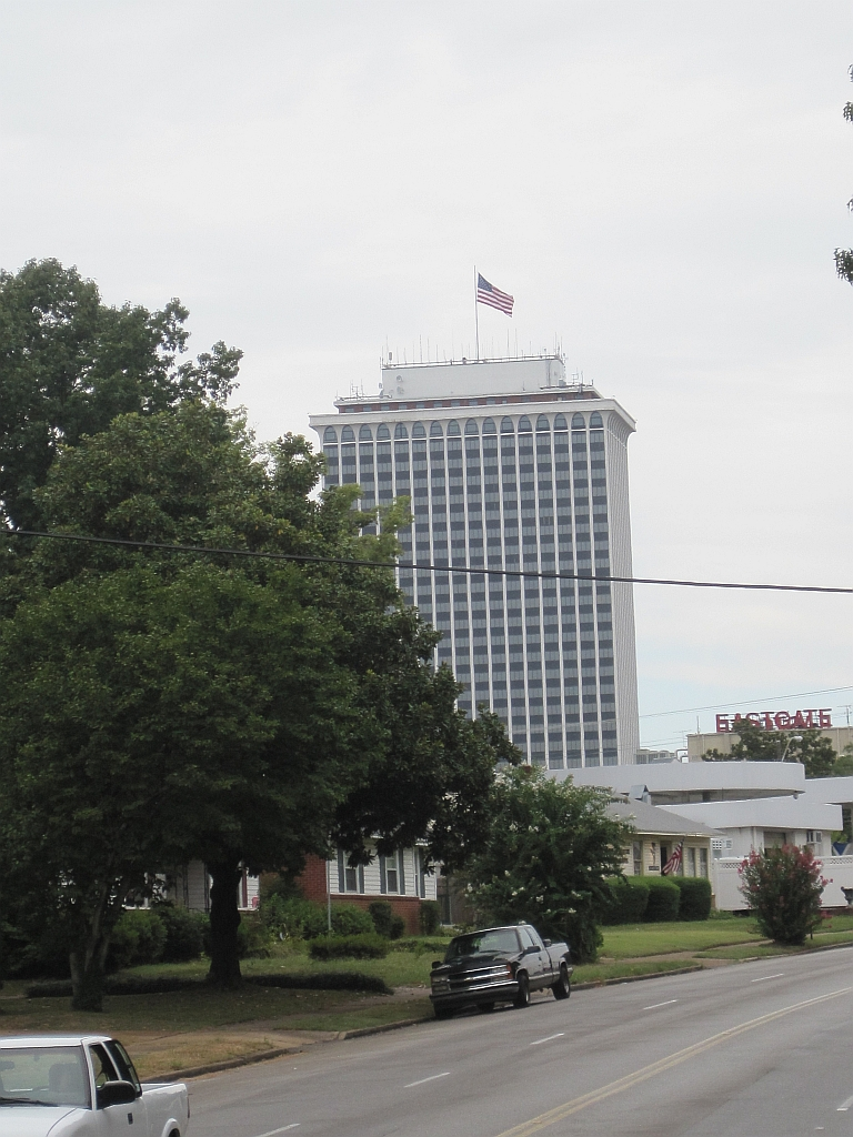 Clark Tower on Poplar Avenue in Memphis, Tennessee